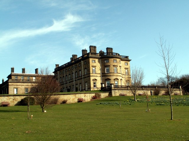 Bretton Hall West Bretton, now being used as a college.